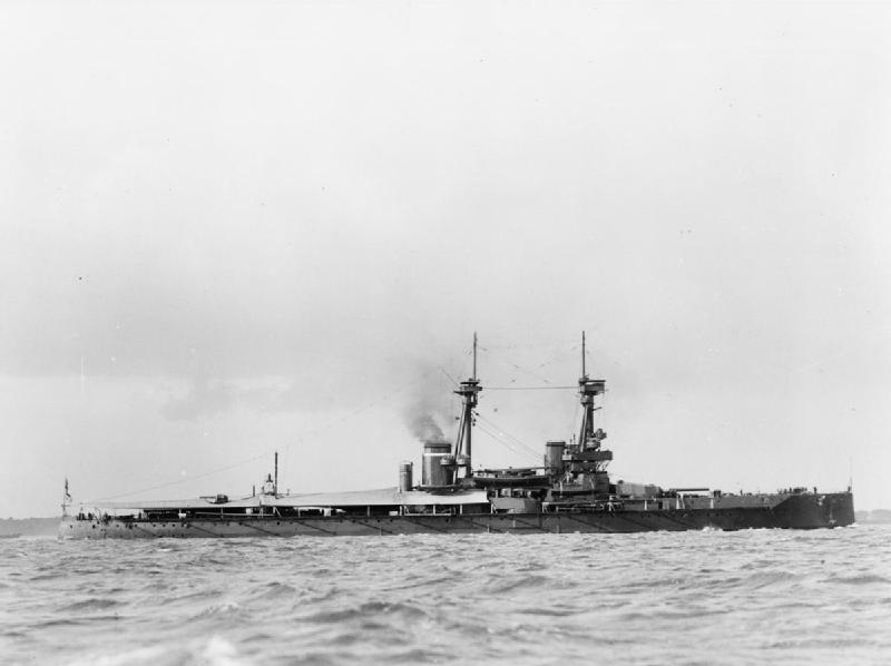 British Battleships of the First World War H. M. S. COLLINGWOOD, 1914.